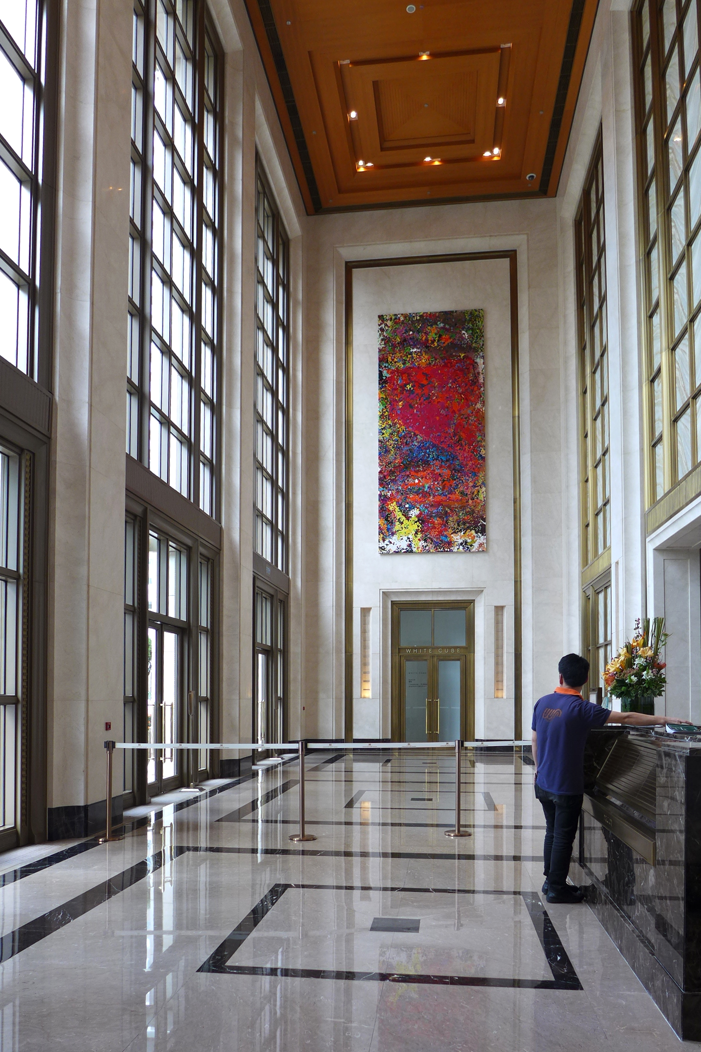 Agricultural Bank of China Tower Lobby